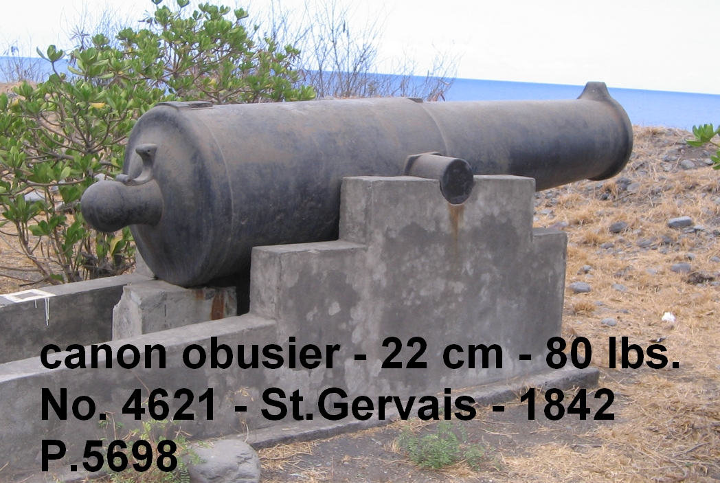 french 80 lbs howitzer - 22cm Canon-Obusier Paixhans from St.Gervais founderie (France) foundet in 1842 No. 4621, weight: P.5698 located in Le Port / Reunion